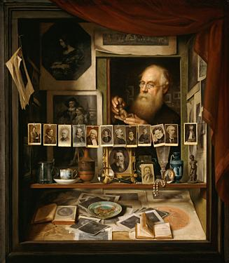 "The Printseller" by Walter Goodman, oil on canvas, Memorial Art Gallery of the University of Rochester, New York, USA.